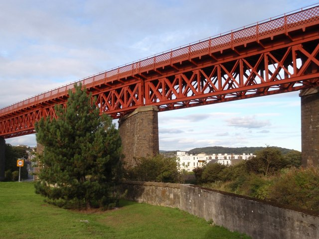 Jamestown Viaduct At times Inverkeithing seems to be just a spaghetti junction of railway bridges